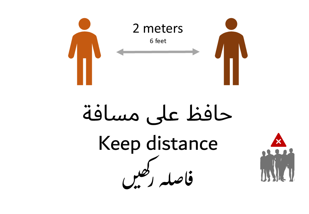 A poster for health education for social distancing in COVID-19 epidemic